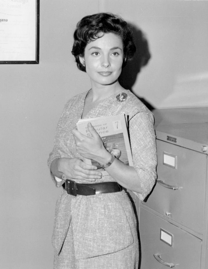 Photo of Jeanne Bal as vice principal Jean Pagano in the television series Mr. Novak.